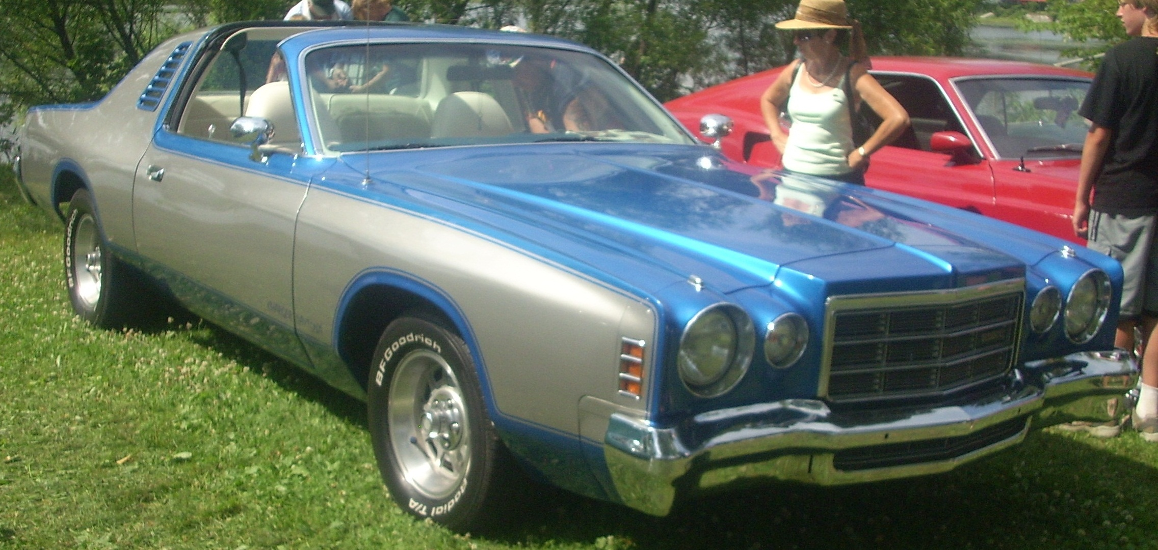 Dodge Charger photographed in Laval, Quebec, Canada at Auto classique Laval 2010.